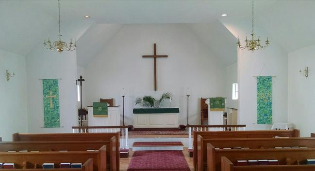 Sanctuary of the Covenant Reformed Episcopal Church, Roanoke, Virginia.